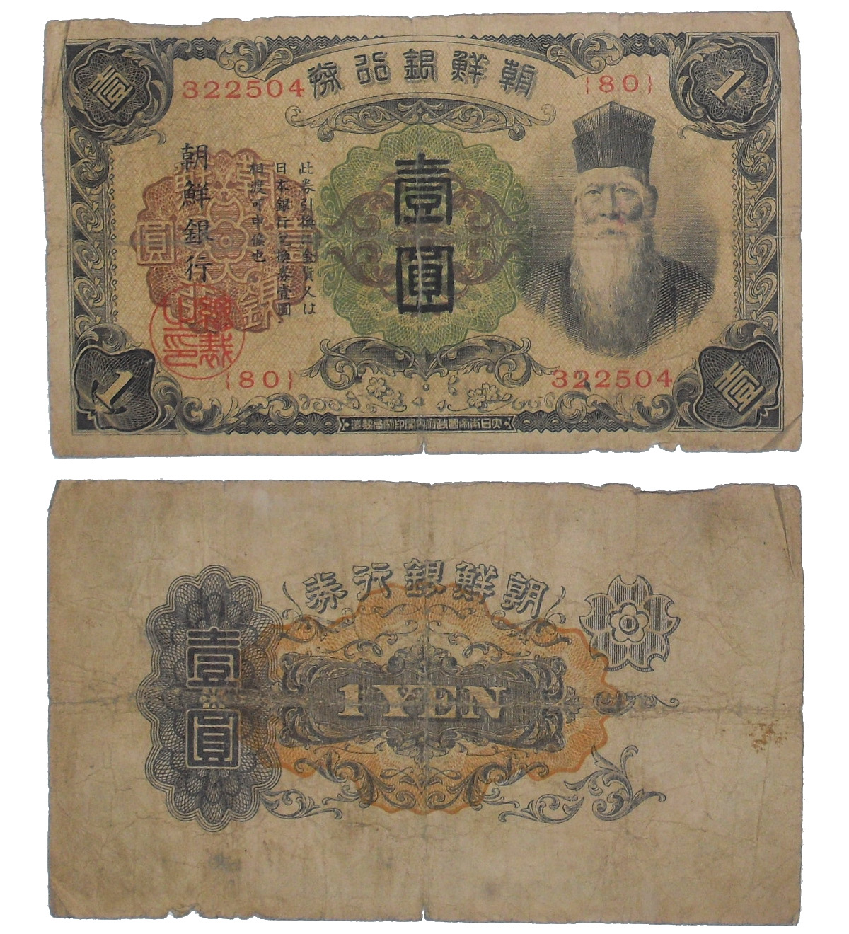 Korea 1Yen 1932